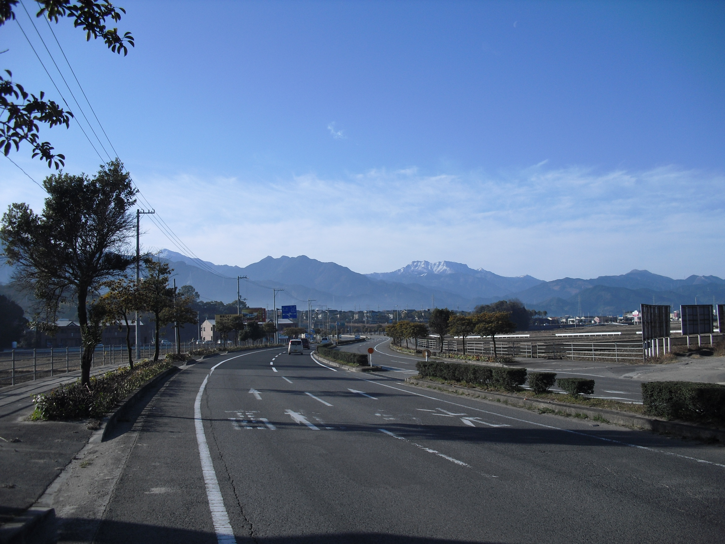 Ehime prefectural_route No.13.